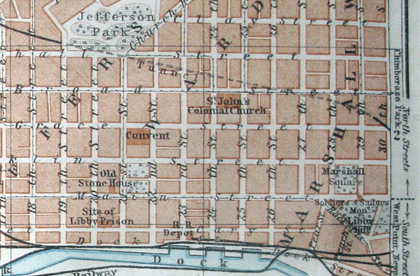 Church Hill Tunnel route depicted on a map of Richmond from the early 20th century. The undated map includes Main Street Station (built in 1901).